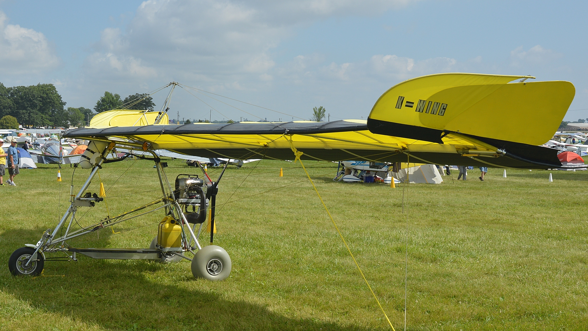 At EAA AirVenture Oshkosh, Wisconsin. Registration unknown.